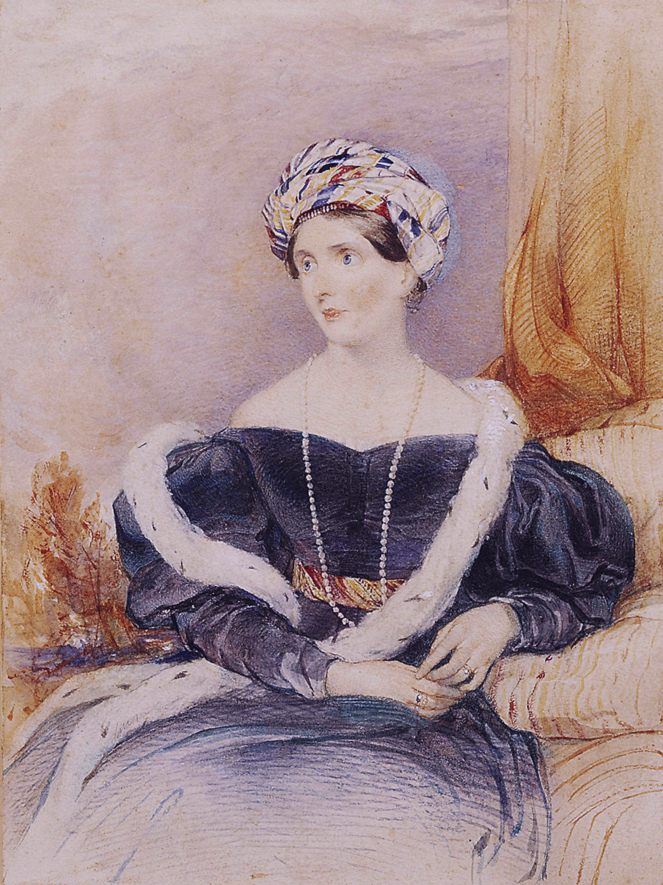 Priscilla (Wellesley-Pole), Countess of Westmorland watercolour 31 x 22.8 cm